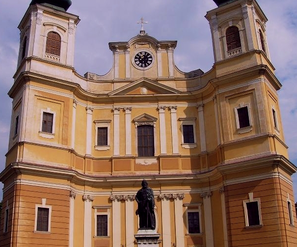 Oradea Canon's Row